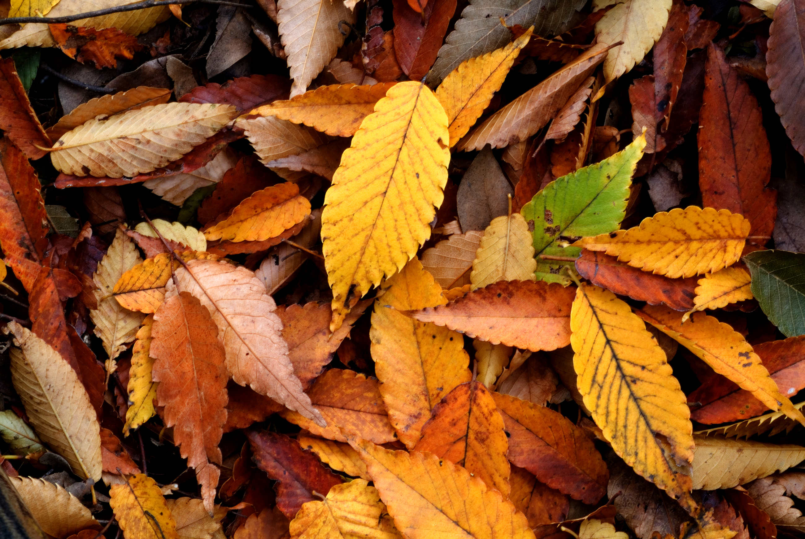 Autumn fallen leaves of Zelkova serrata